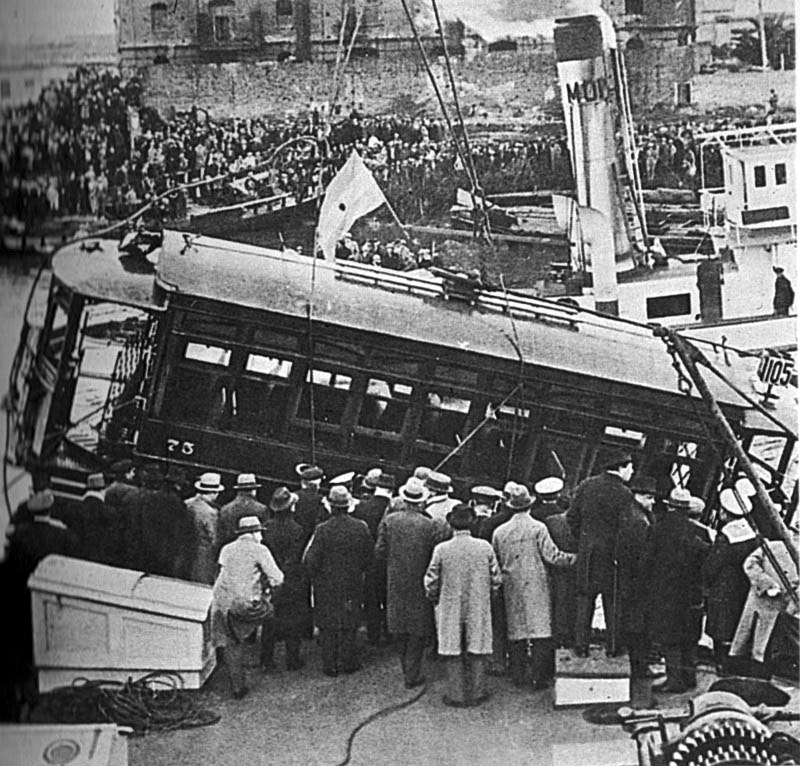 A crane removing the line 105 (unit n° 75) tram fallen into Matanza River (Riachuelo) in the Bosch Bridge of Buenos Aires, Argentina.